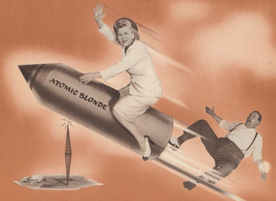 Photo from 1948 calendar issued by WLW Radio and WINS Radio to benefit The Ruth Lyons Children's Fund. Pictured are Ruth Lyons and Frazier Thomas. Ruth Lyons, long-time Cincinnati broadcaster and hostess of the WLW radio show, Your Morning Matinee, began a fund for holiday gifts for hospitalized children in the late 1930's, when she learned many children who were hospitalized received no gifts. It became the Ruth Lyons Children's Fund and grew to operate in three states. Though Lyons had retired from broadcasting at least 20 years prior to her death in 1988, the Fund continues to provide holiday gifts for hospitalized children. Crosley Broadcasting purchased New York radio station WINS in 1946; the company assisted Lyons in the promotion of the Fund with promotional material. The first booklet for the Fund, "Seeing is Believin'", was issued in 1947. Later promotions were in the form of calendars and were a combination of information and photos of personalities in both radio stations. The booklets and calendars were given to those making a donation to Lyons' Children's Fund. Frazier Thomas was the co-host of Your Morning Matinee for eight years prior to his moving into television work, and has many photos in the booklets and calendars. This image with Ruth Lyons is the photo for the calendar for July 1948. The calendar was designed for distribution to the public and has no visible copyright markings. The radio show moved to television circa early 1950s with a new name, The 50 Club (later The 50/50 Club). Copyright searches done turned up no results: Your Morning Matinee Ruth Lyons A search of WLW turned up items which pertain to WLW-TV and are more recent than this material. There is no evidence any copyright is claimed on this material.